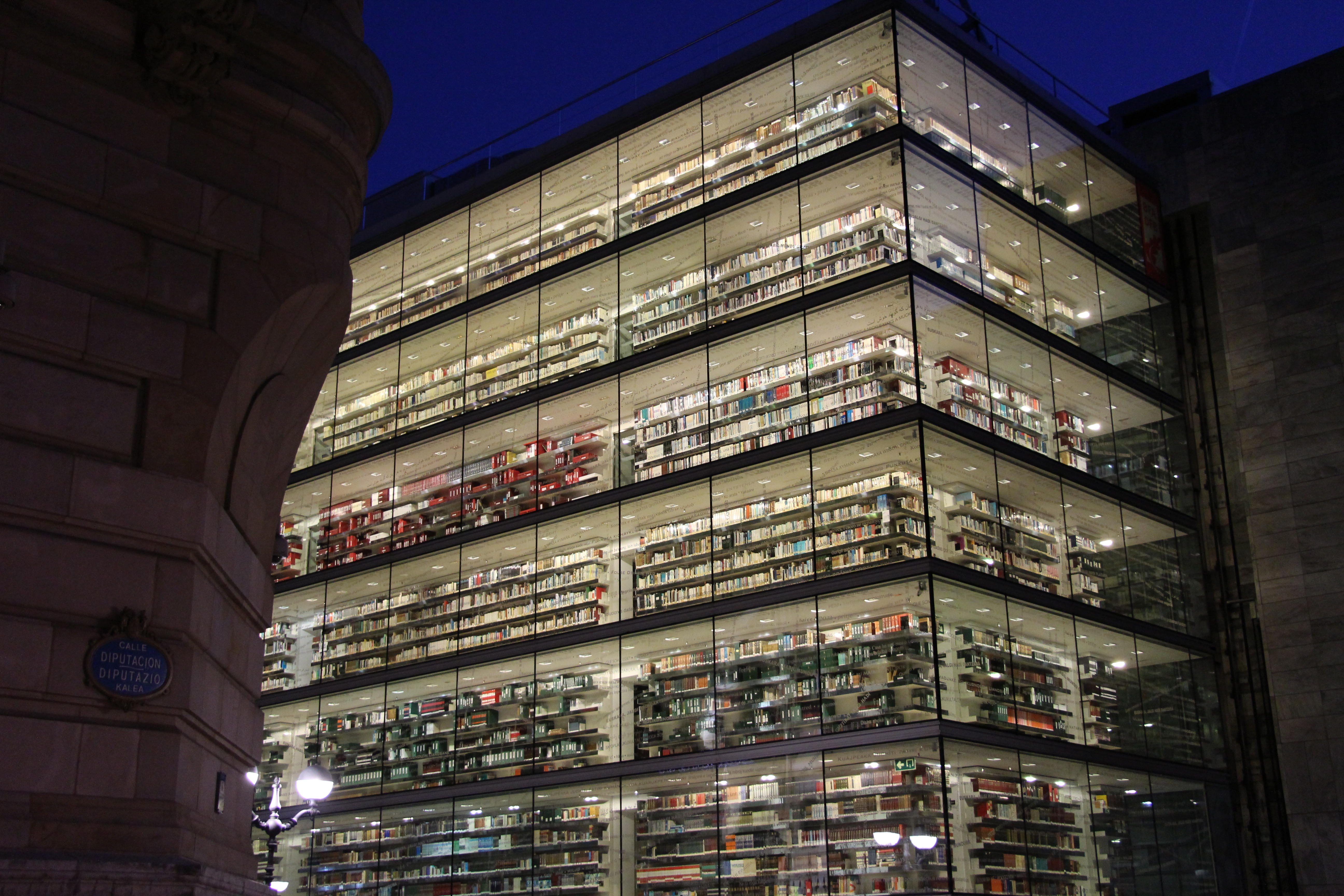 (Abando) Astarloa Kalea Regional Library of Biscayne. Arch. IMB Arquitectos 2004-07 .